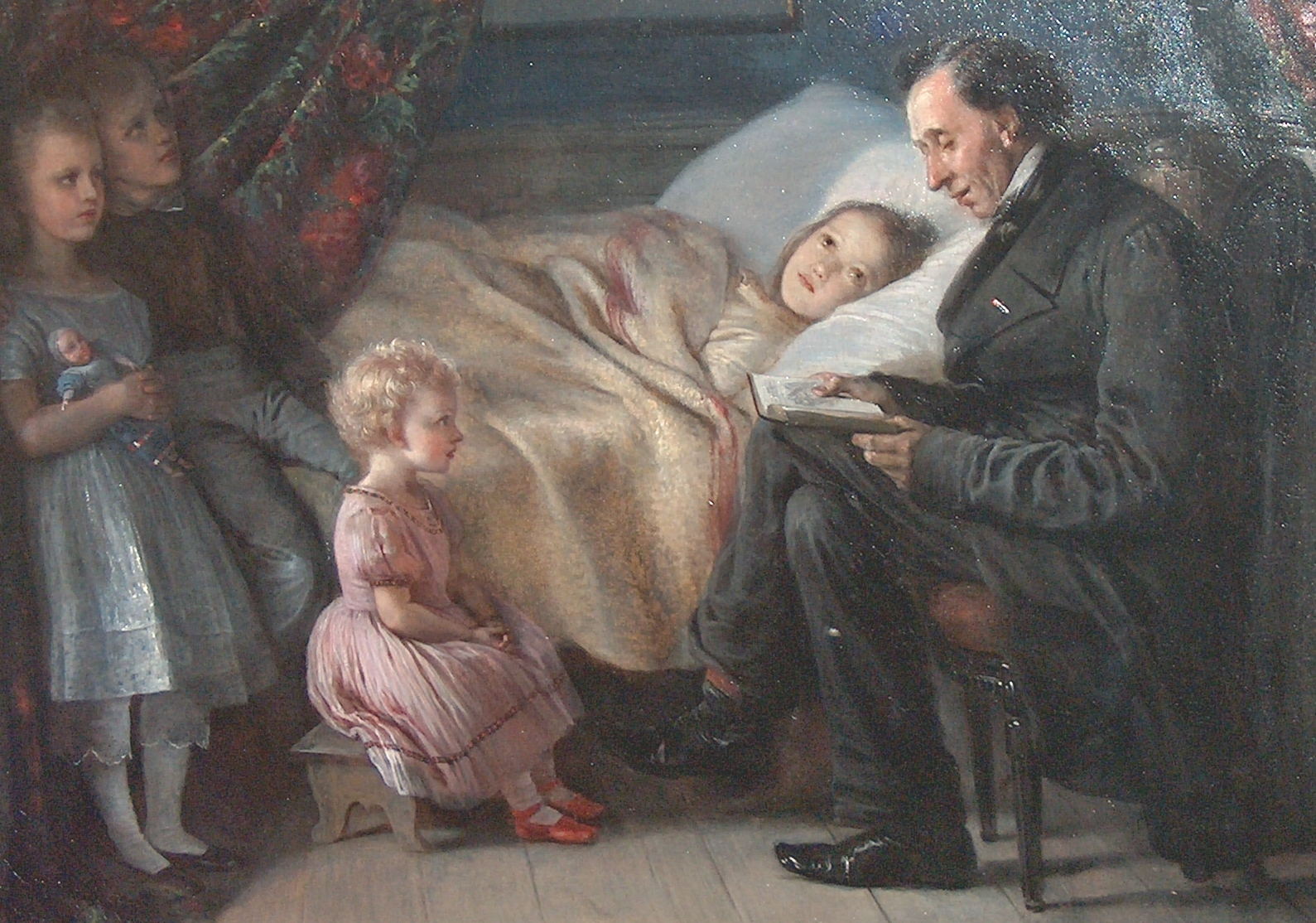 H C. Andersen reads the story "The Angel" for the children of the painter in 1862.